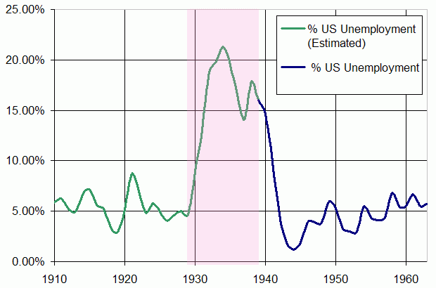 U.S. Unemployment rate from 1910-1960, with the years of the Great Depression (1929-1939) highlighted. Data for 1910-1930 from Christina Romer (1986), "Spurious Volatility in Historical Unemployment Data", The Journal of Political Economy, 94(1): 1-37. Data for 1930-1940 from Robert M. Coen (1973). "Labor Force and Unemployment in the 1920's and 1930's: A Re-Examination Based on Postwar Experience", The Review of Economics and Statistics, 55(1): 46-55. Data for 1940-1960 from the US Bureau of Labor Statistics, Employment status of the civilian noninstitutional population, 1940 to date ftp://ftp.bls.gov/pub/special.requests/lf/aat1.txt, retrieved March 6, 2009. Data originally compiled by Peace01234. Complete raw data are available from the talk page for Peace01234.